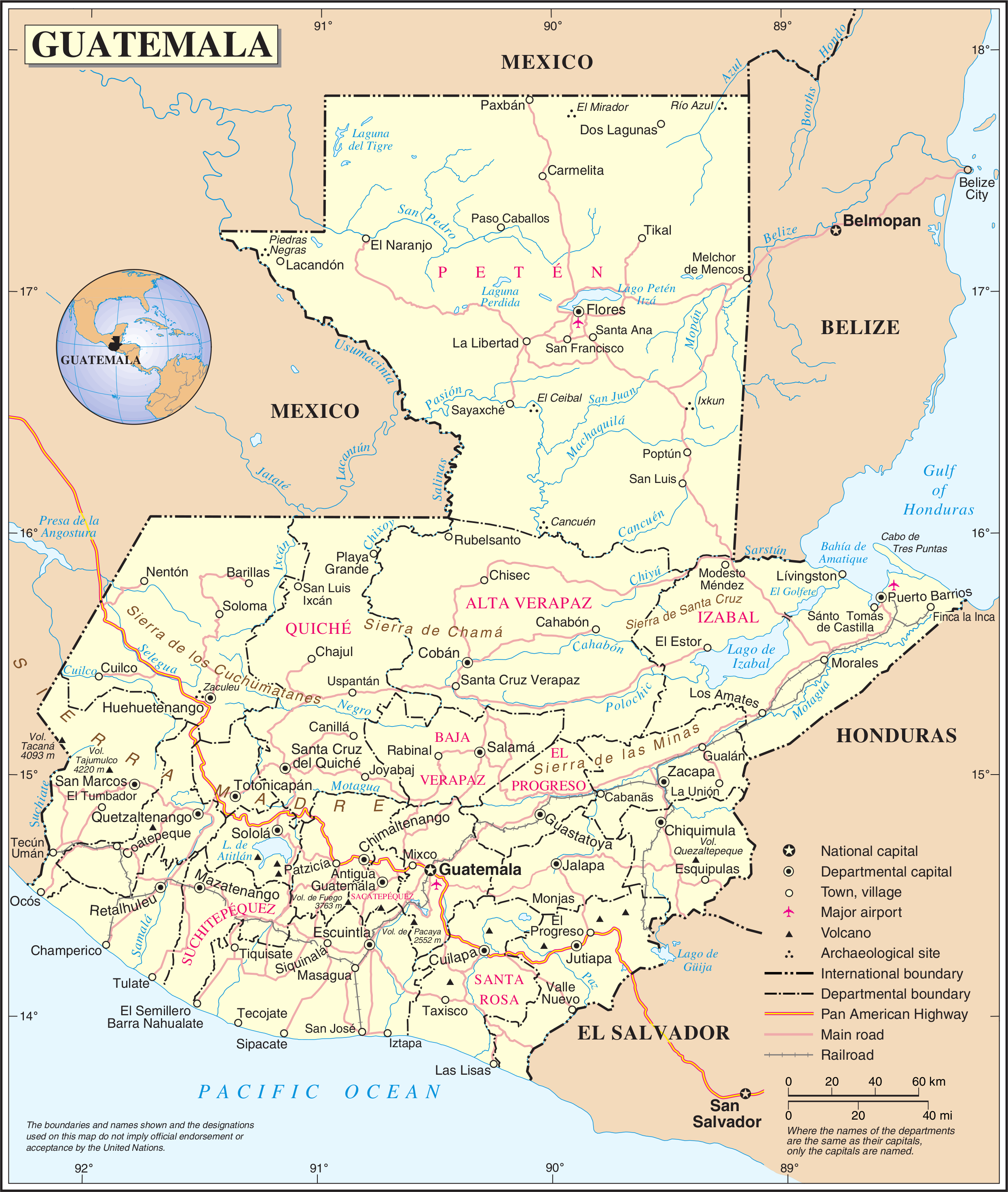 Political map of Guatemala generated by the United Nations.